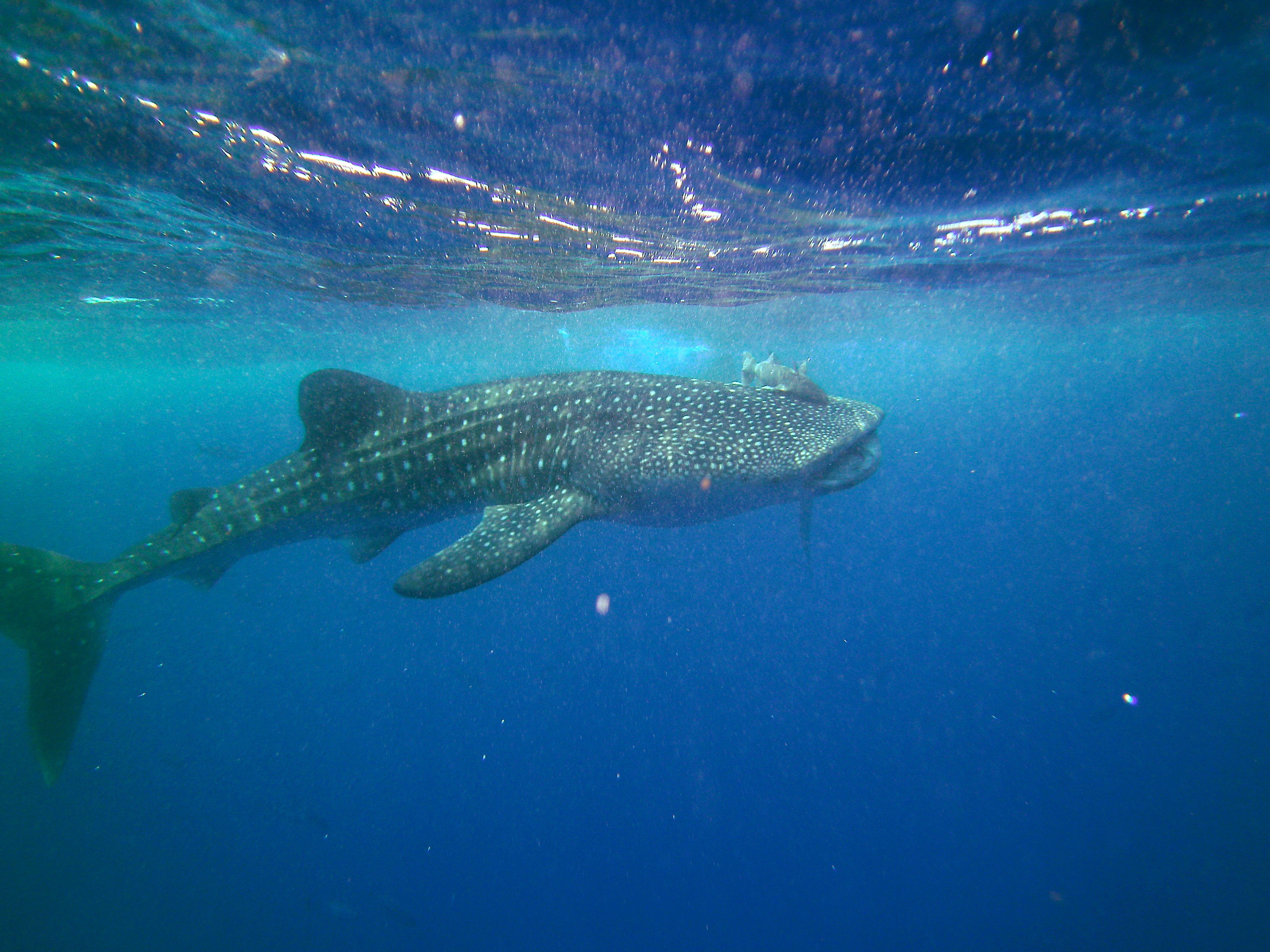 Whale shark (Rhincodon typus)